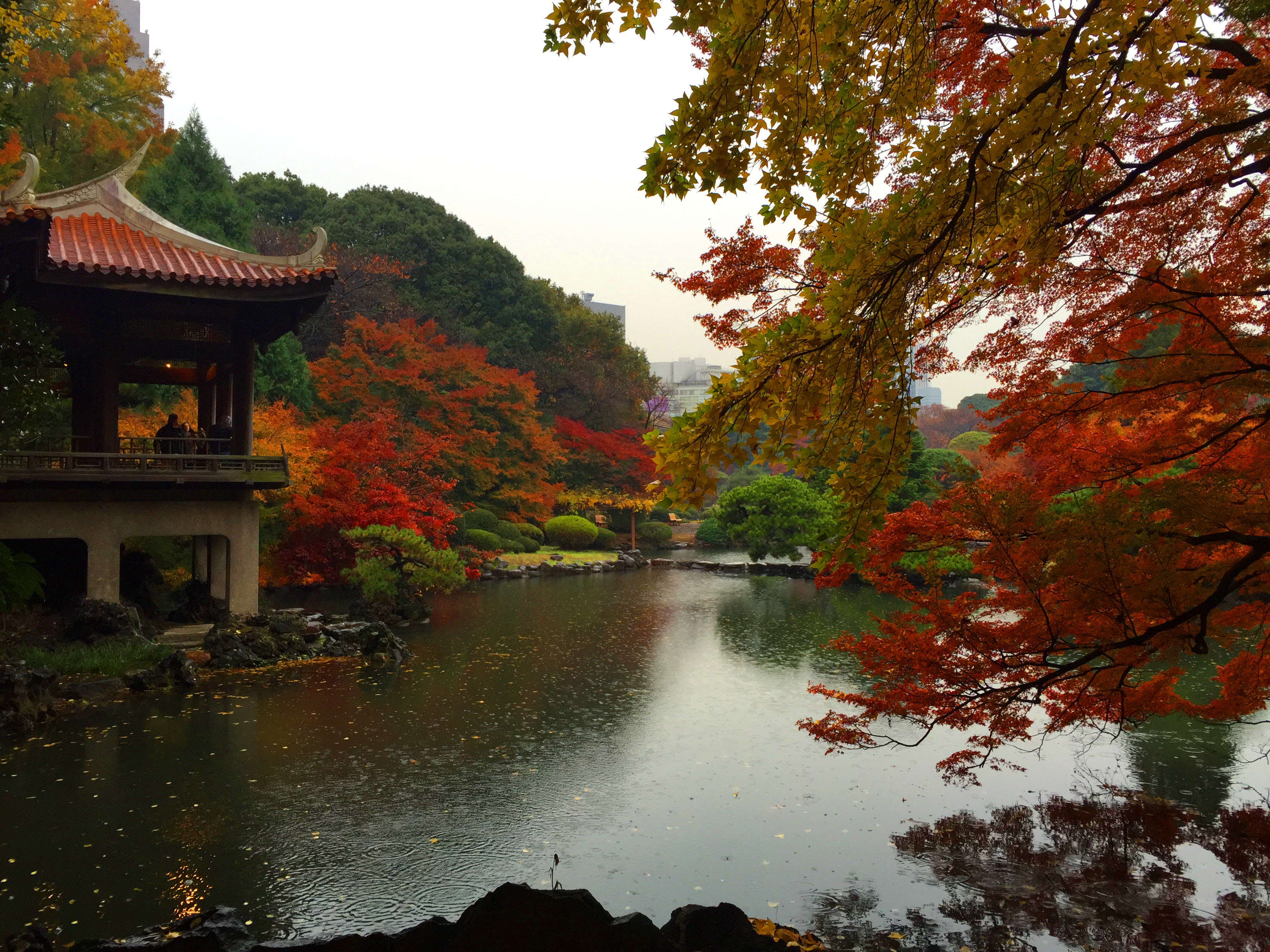 Autumn leaves in Shinjuku Park in the rain